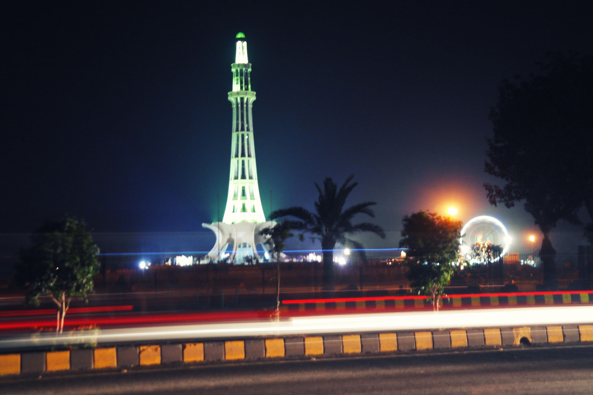 Minar-e-Pakistan, Lahore.